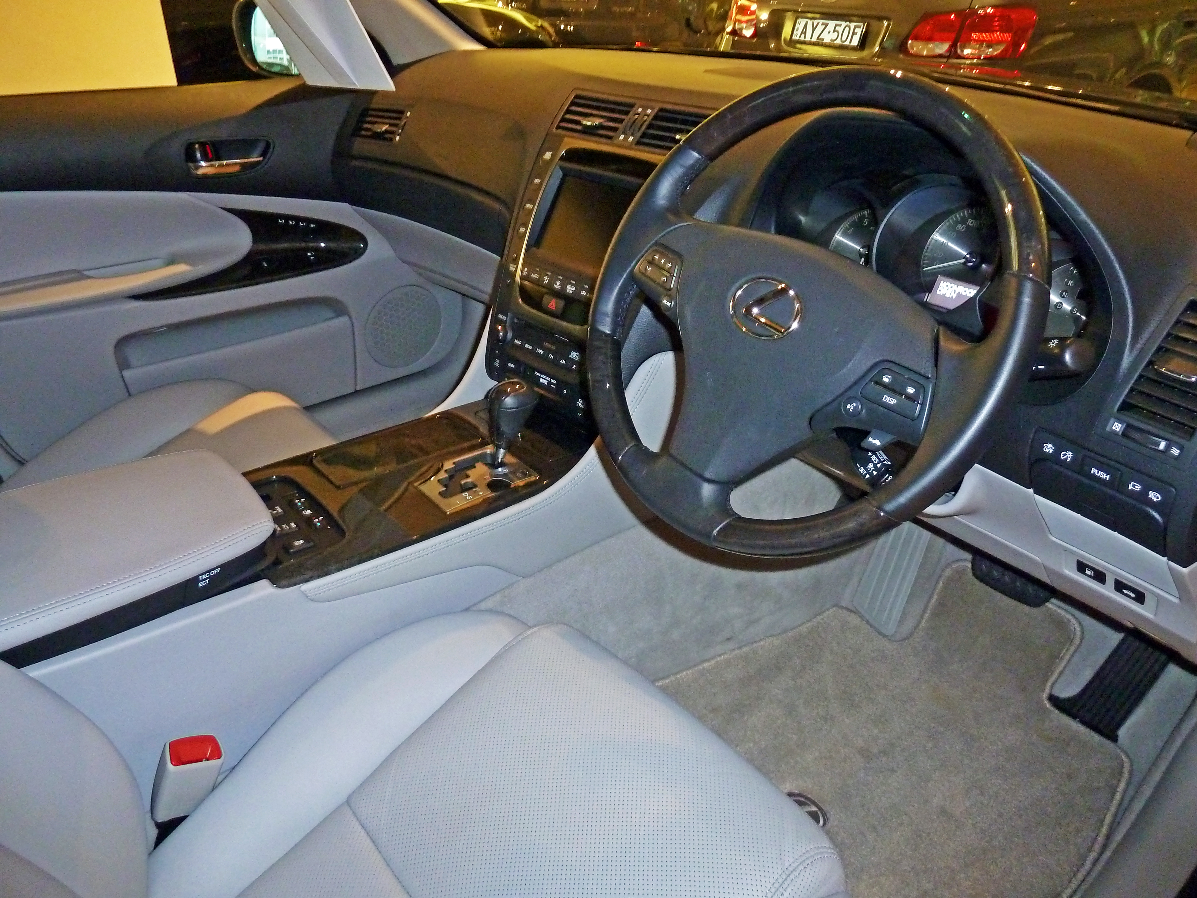 2009 Lexus GS 300 (GRS190R MY08) Sports Luxury sedan. Photographed at Sydney City Lexus, Waterloo, New South Wales, Australia.